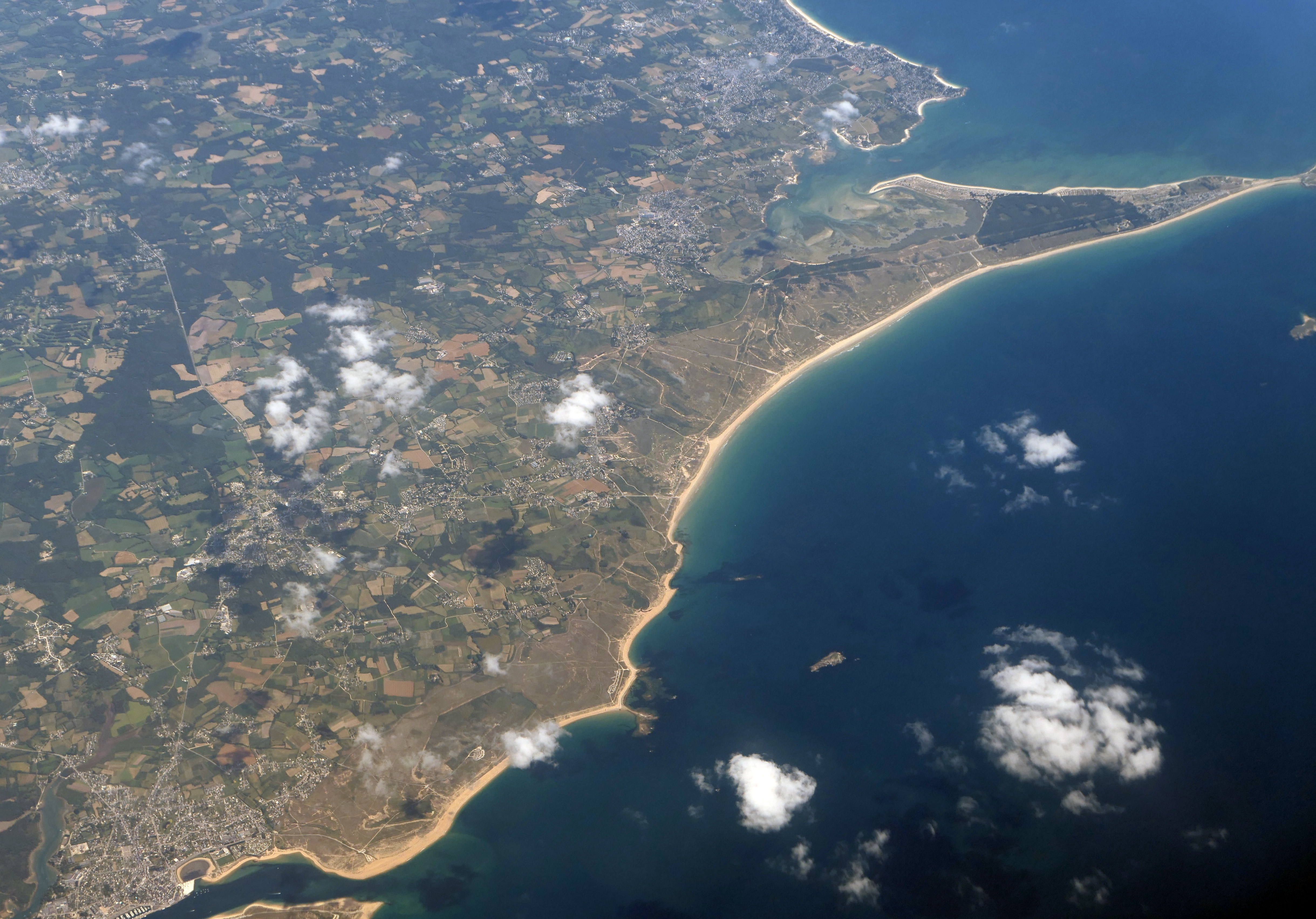 An aerial view of the coast of Brittany between Étel and the Quiberon peninsula.